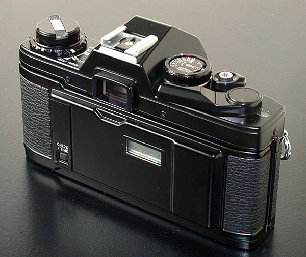 Olympus OM10 body w/databack